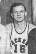 The 1947–48 Anderson Packers basketball team